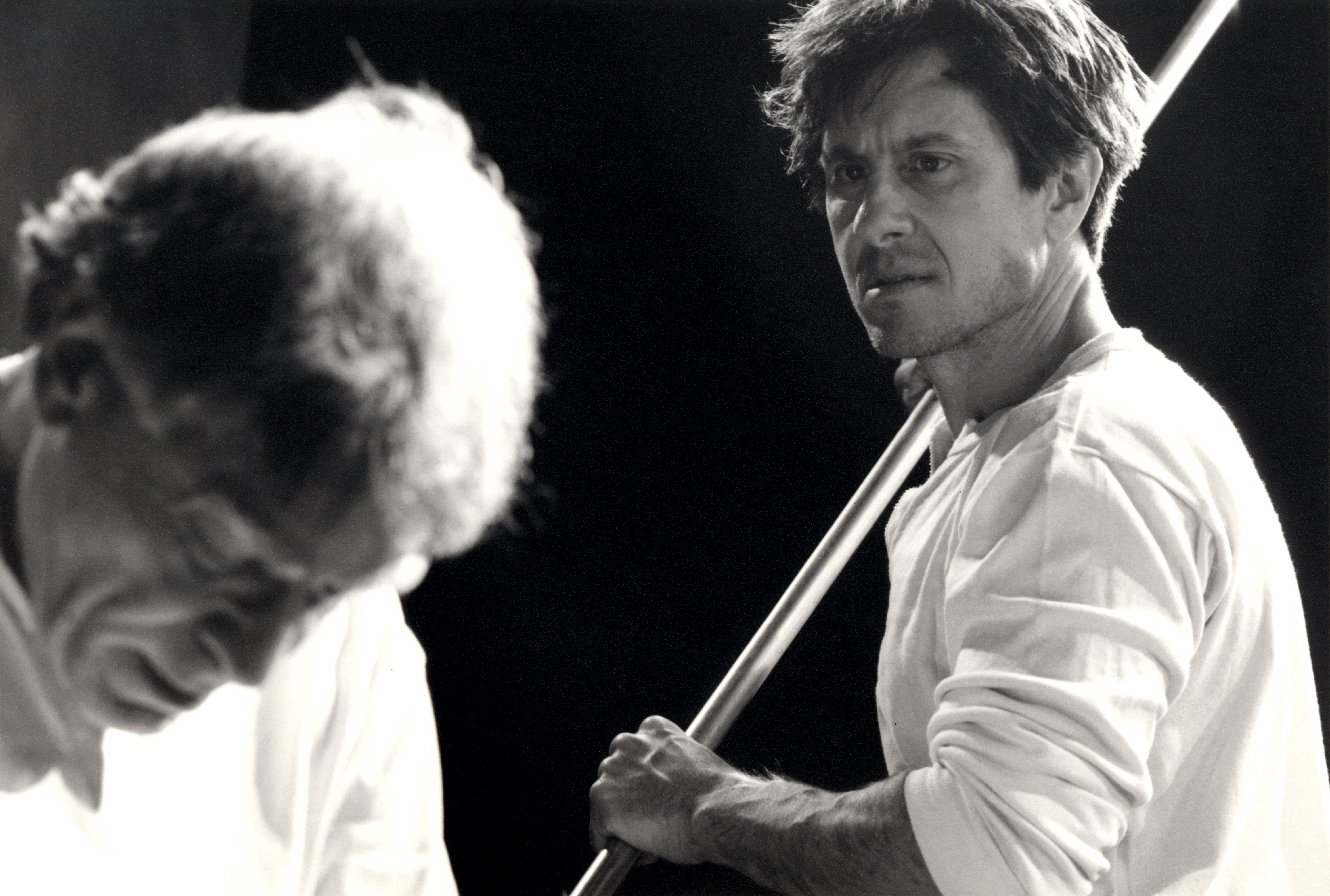 Copyright 2002 Works Productions Photo Taken by Julian Rad Featured (left to right): Martin Epstein as Ahab and Michael Berry as Starbuck in Works Productions' 2002 presentation of Julian Rad's adaptation of Herman Melville's Moby Dick. The production was directed by Hilary Adams and would go on to garner three 2004 Drama Desk nominations for Outstanding Play, Outstanding Director of a Play and Outstanding Featured Actor in a Play. Please do not use without crediting the actor in the image and the photographer.